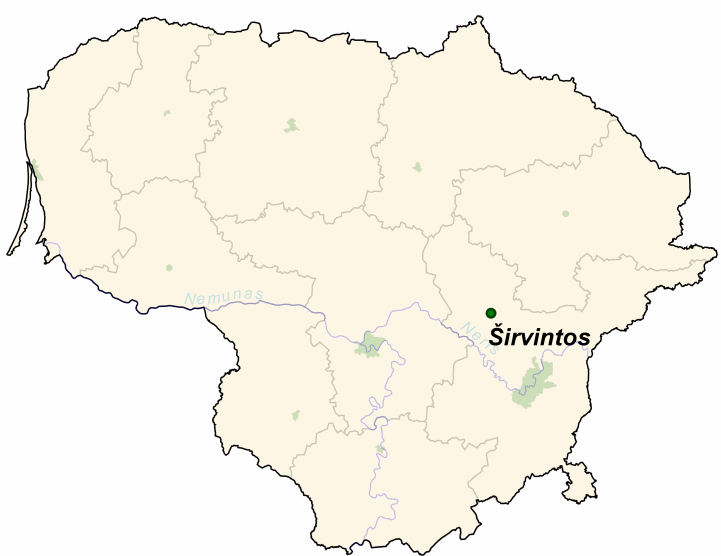 Širvintos on the map of Lithuania